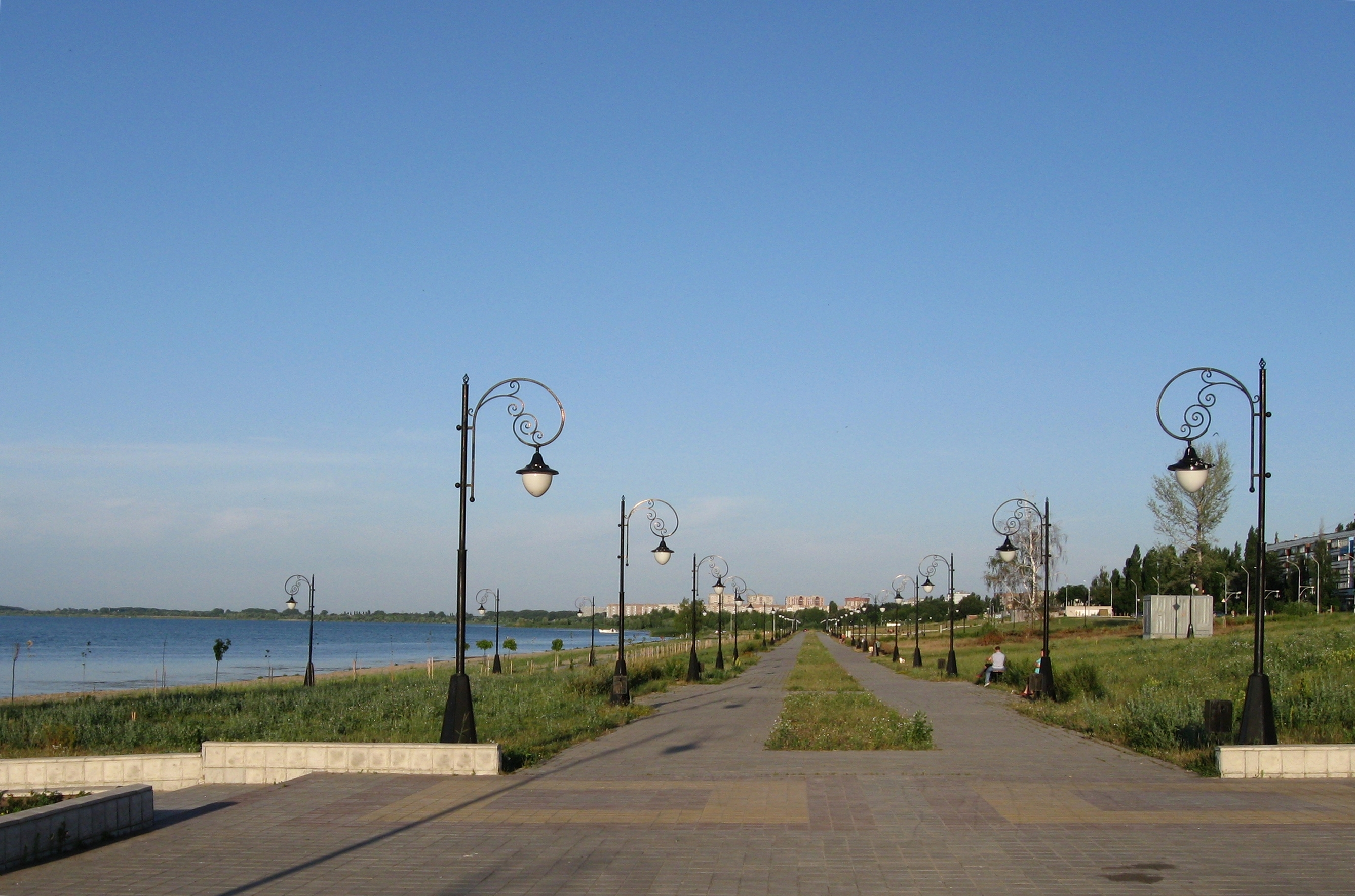 Kursk Reservoir embankment in Kurchatov (Kursk Oblast).